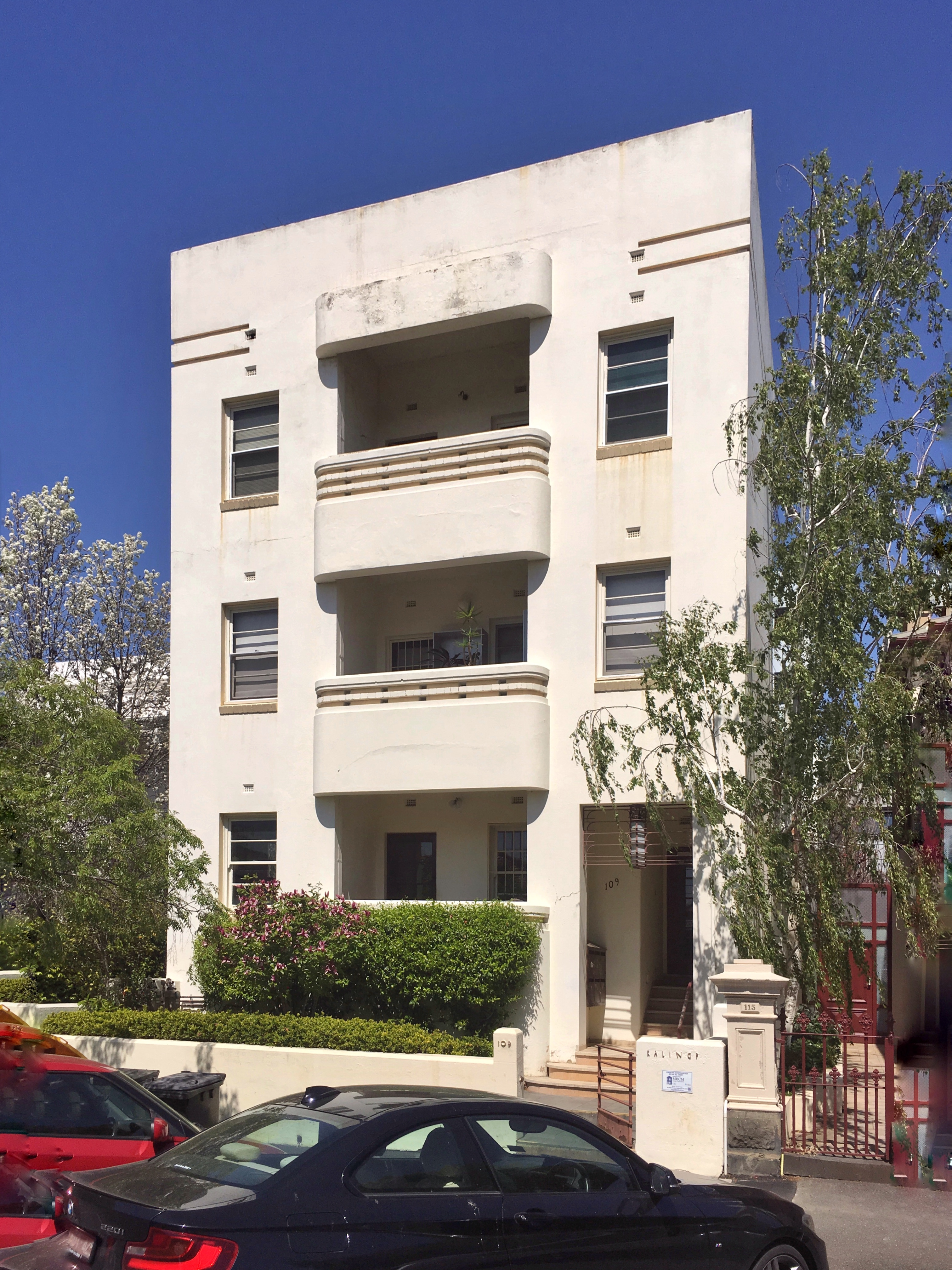 East Melbourne Flats by Edith Ingpen, built 1933-34